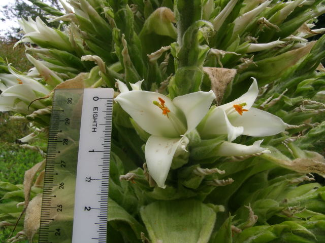 Puya raimondii, "Queen of the Andes", San Francisco Botanical Garden Accession #1972-0214, Bed 48O, taken 7/12/2006 by Tony Morosco. All non-profit and educational use without profit granted.